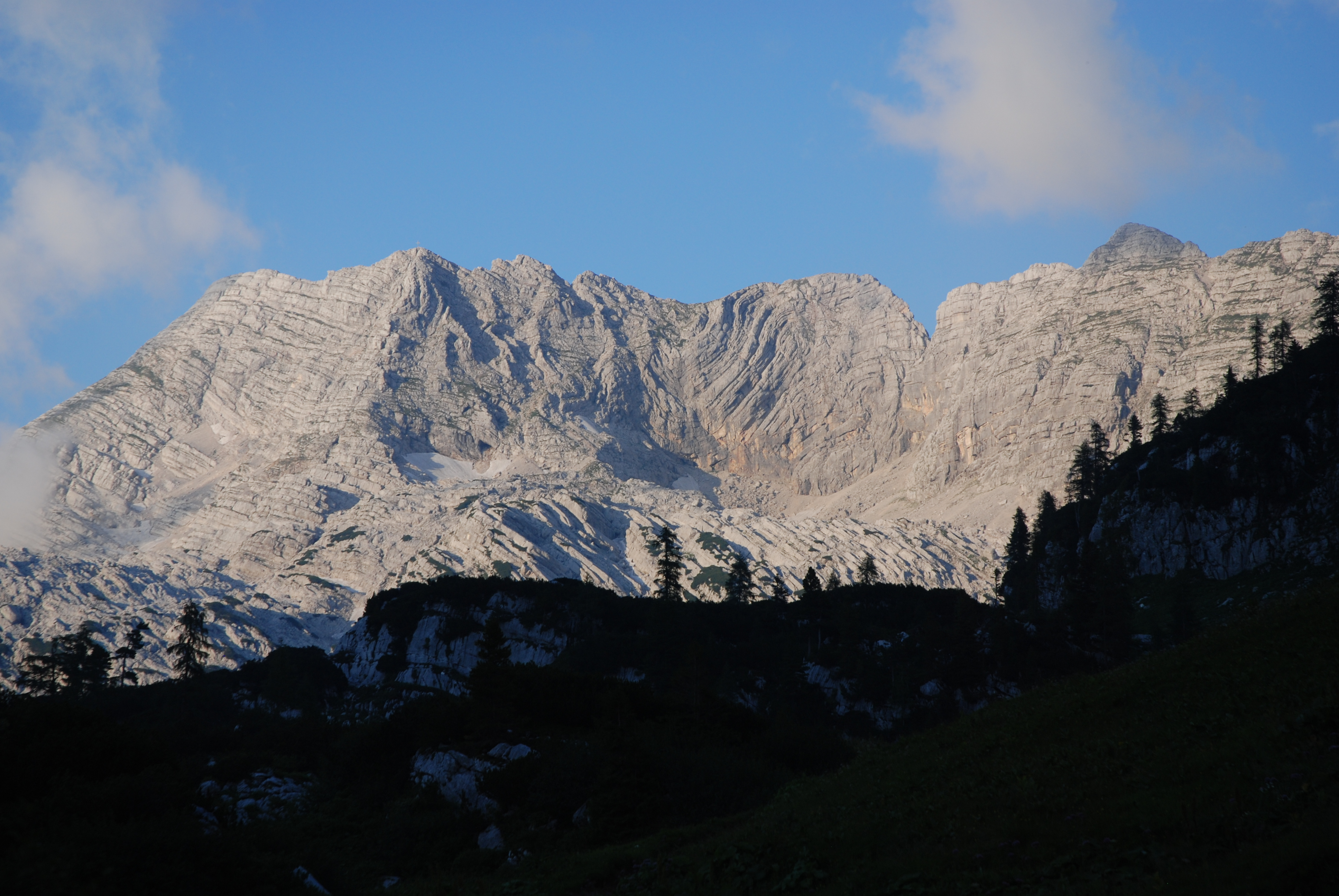 Rotgschirr as seen from Pühringer Hütte, Totes Gebirge, Austria